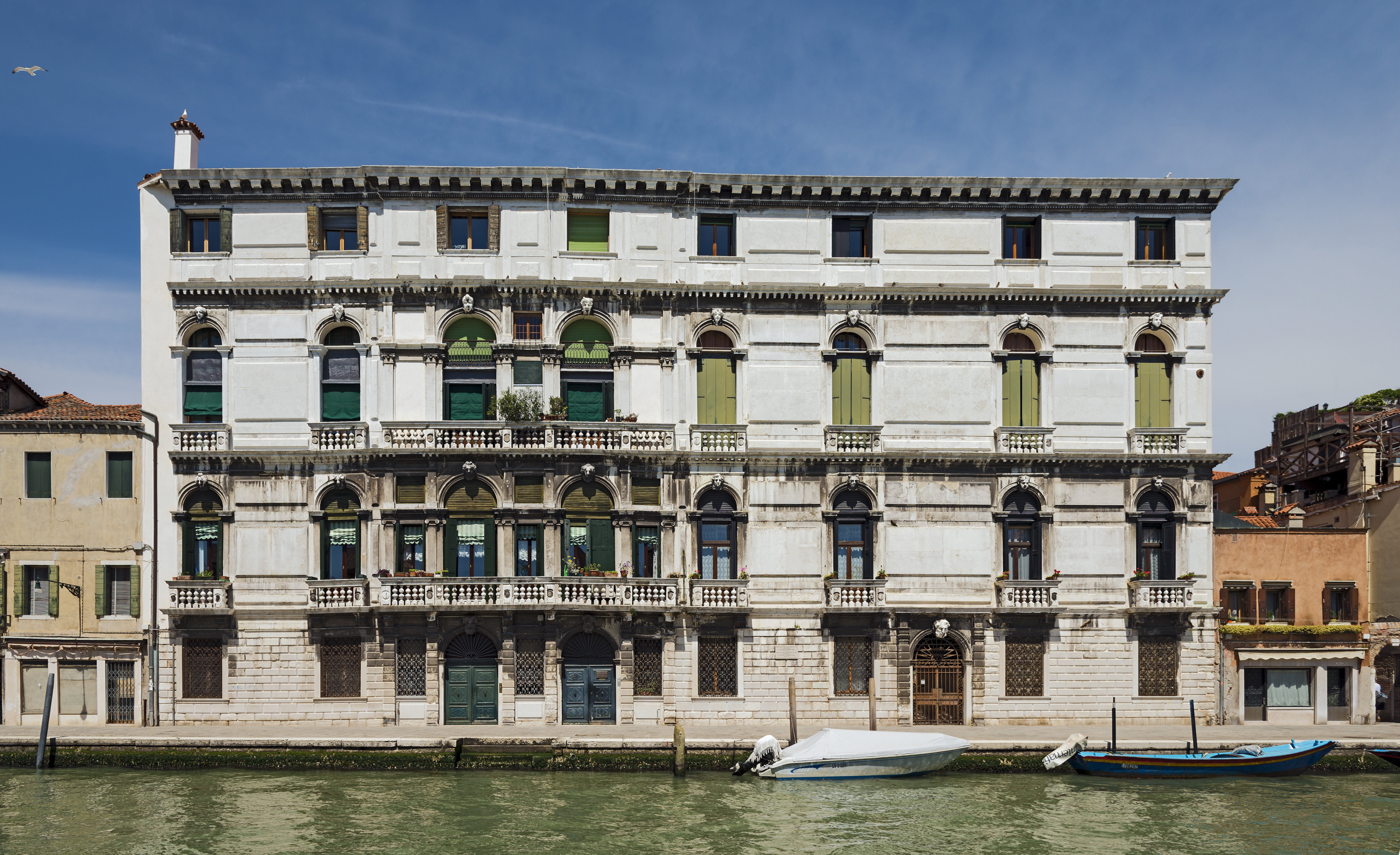 Palace Surian Bellotto in Venice - The facade of the palace, view of the Cannaregio Canal